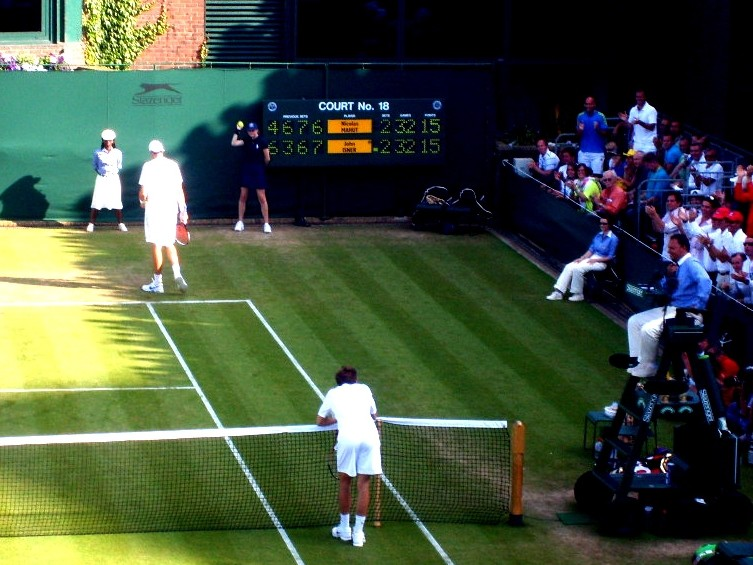 Isner-Mahut match at Wimbledon 2010 : Mahut is resting on the net afer an exchange. The score is a perfect equality : 2 sets all, 32 games all, 15-15. At this stage, the match has just became the longest tennis match ever since the players have already played during 6hrs34.